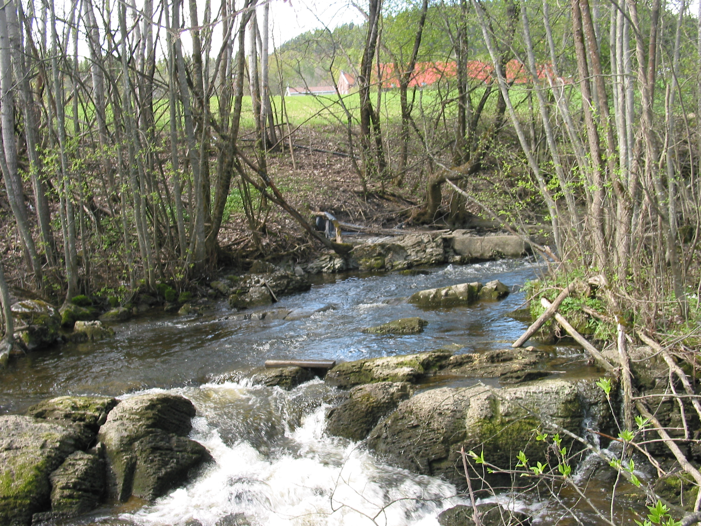 Øverlandselva, facing north, farm seen in background.